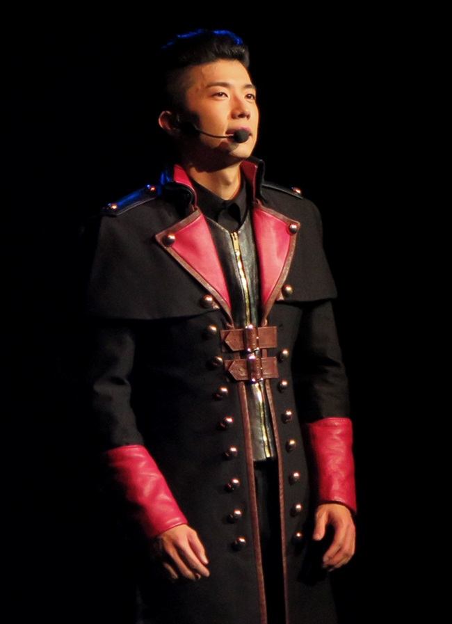 2PM Go Crazy World Tour, Rosemont Theatre, Chicago (Rosemont) Illinois, U.S.A.